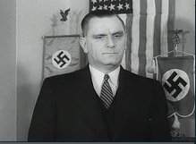 German American Bund stock shots: Bund leader Fritz Kuhn. Still from "March of Time" -outtakes - Story RG-60.0698, Tape 316